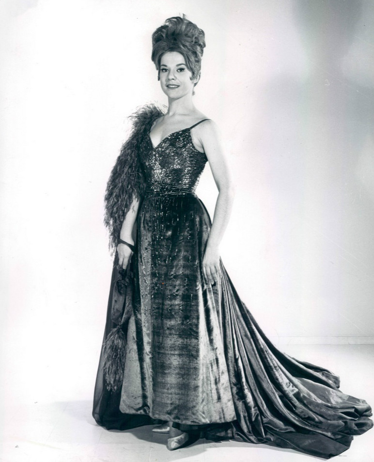 Photo of actress Karen Morrow.